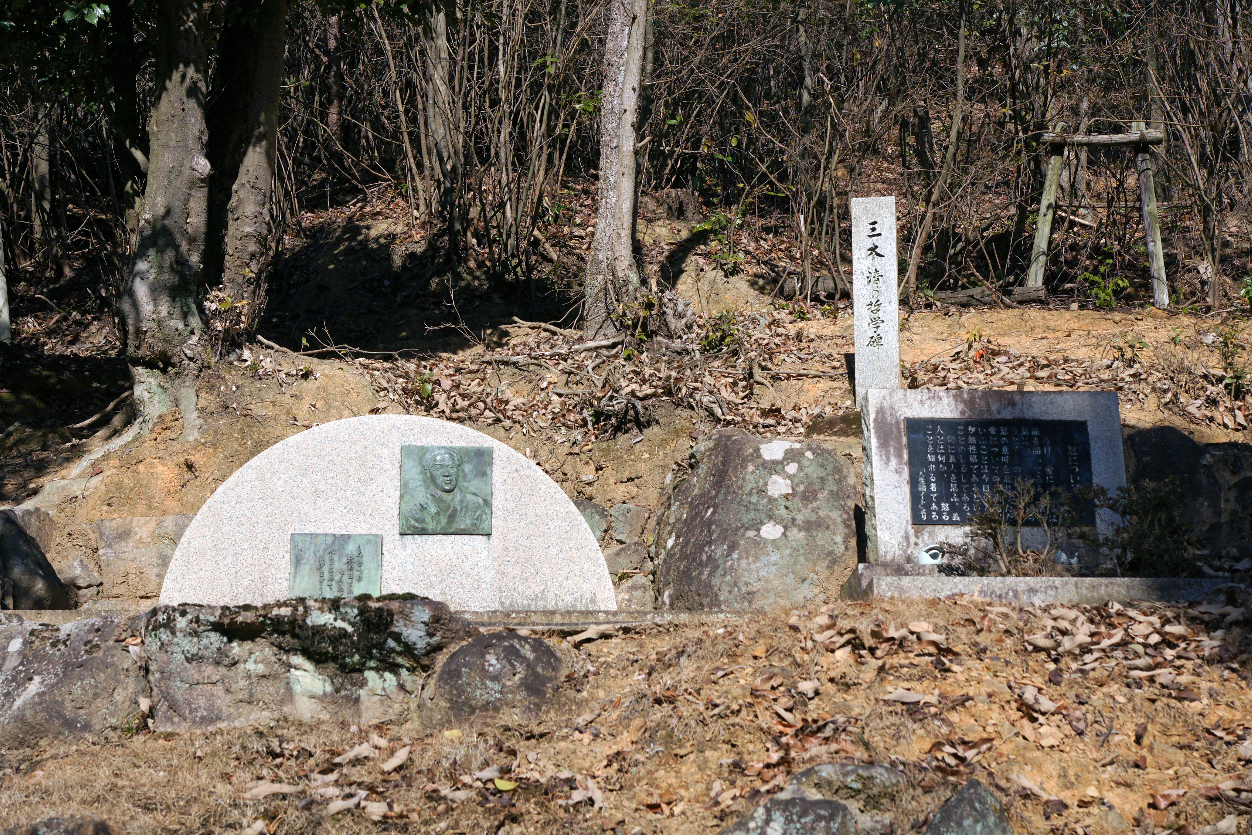 "Tetsugaku-no-michi" on Shirasagi-yama Park, Tatsuno, Hyogo prefecture, Japan